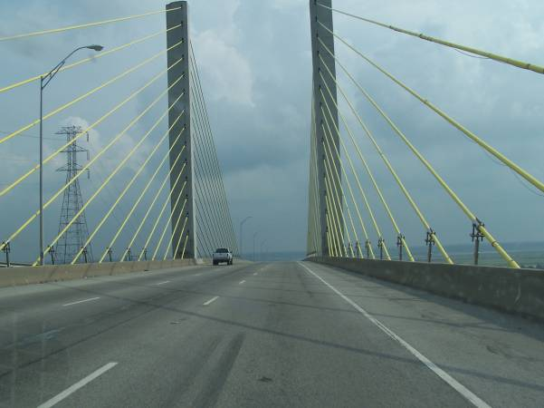 Driving eastbound on the Veterans Memorial Bridge in Jefferson County, TX.